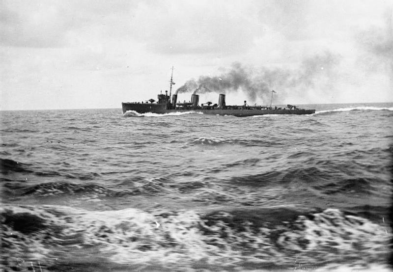 Photograph of British Laforey class destroyer HMS Loyal.